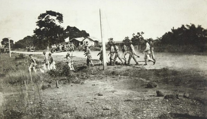 U.S. Marines in action in the Dominican Republic, c. 1916-1920